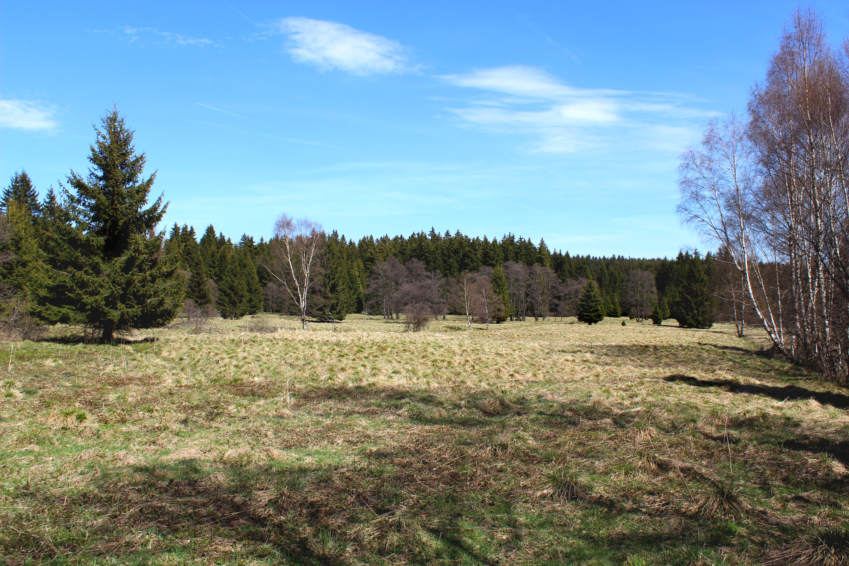 Prameniště Teplé natural reserve by Mariánské Lázně, Czech Republic